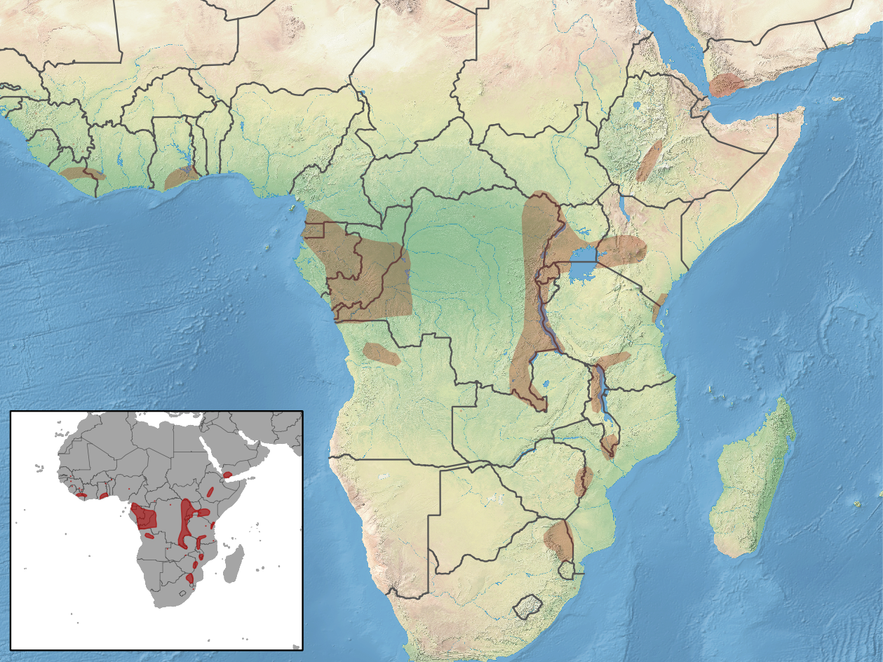 geographic distribution of Myotis bocagii